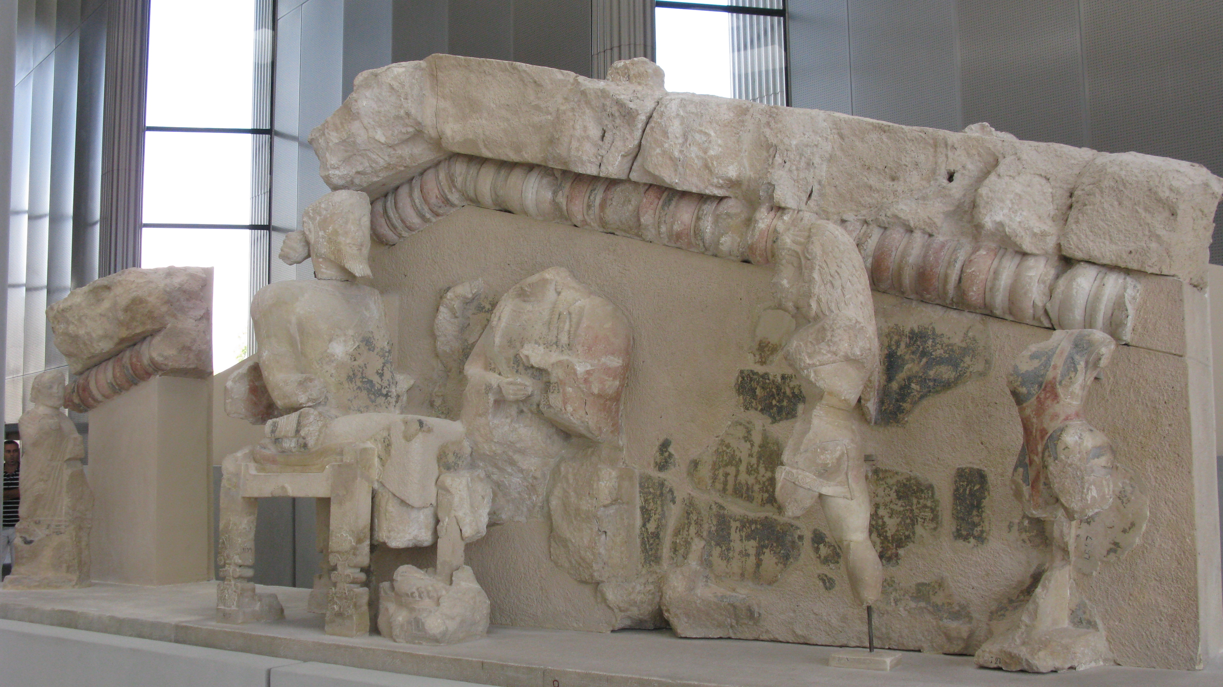 New Acropolis Museum.